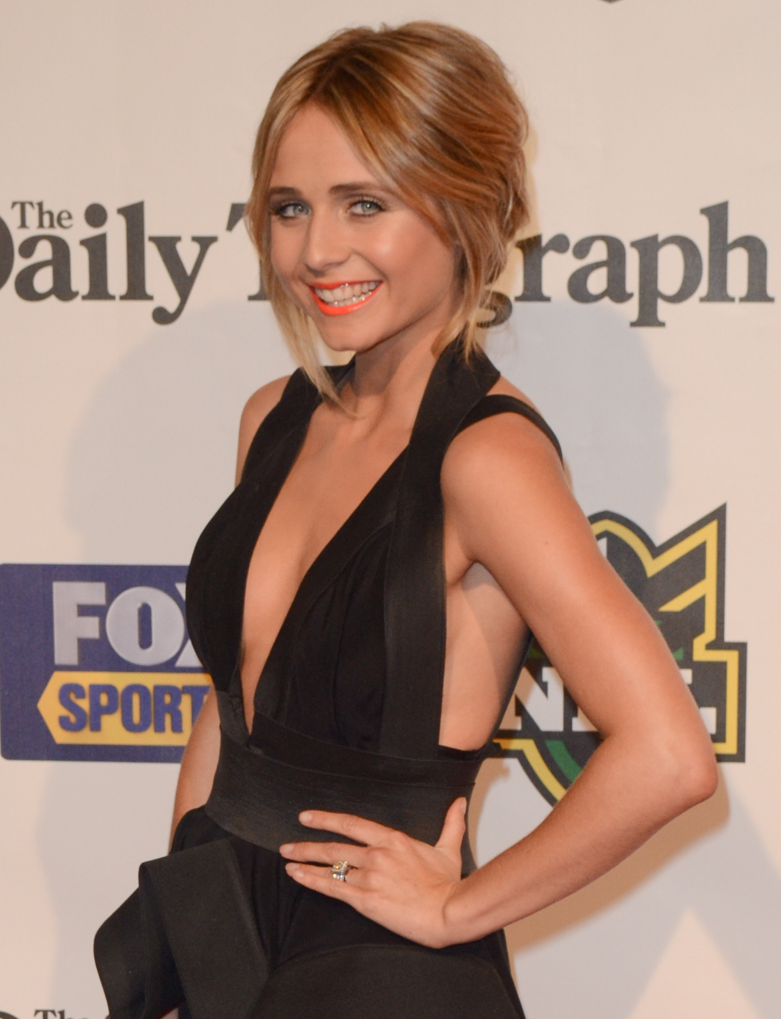 Tessa James at the 2012 NRL Dally M Awards.